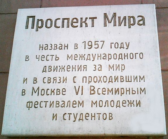 Prospect Mira so named in 1957 in honor of the international peace movement and the sixth World Festival of Youth and Students happened then in Moscow. The memorial sign hangs on the wall of the house number 2